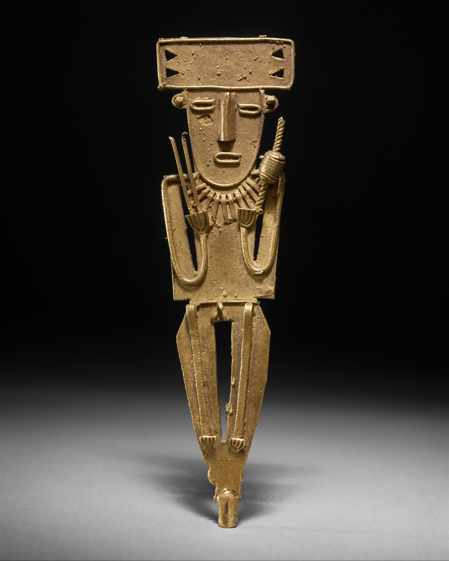 Muisca tunjo, from Guatavita Lake region, 10-16th century, public domain, Metropolitan Museum of Art, NYC One of 375,000 (!) freshly released photos, may require a new license cat